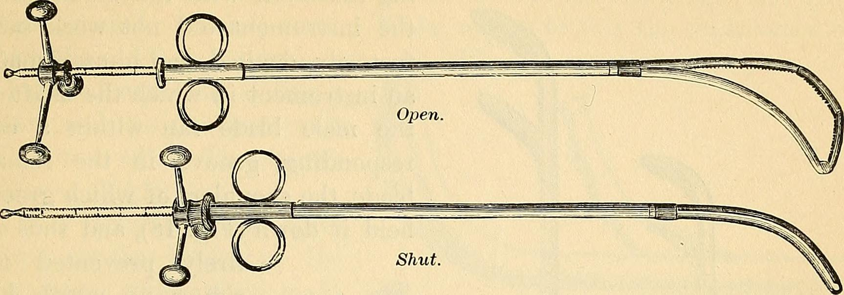 Title: A system of genito-urinary diseases, syphilology and dermatology Year: 1893 (1890s) Authors: Morrow, Prince A. (Prince Albert), 1846-1913, ed Subjects: Skin Syphilis Genitourinary organs Publisher: New York : Appleton Text Appearing Before Image: ygarthdevised similar instruments in 1825. In all theseearly lithotrites, however, the shafts were insecurelyfastened together, and force which could be safelyapplied was not sufficient for the purpose of break-ing the stone. In 1830, Jacobson, of Copenhagen, introduced alitliotrite which had one solid blade and one bladearticulated like a chain-saw. The stone was to becaught in the loop made between these two, andcrushed by screw force drawing the articulated blade down on to thesolid one. This instrument, while useful for small stones, proved in-sufficient for large ones, and with it it was difficult to find and seizefragments after the first crushing. In 1832 Heurteloup brought out his lithotrite, called a, percuteur, in Fig. 15.—Weiss.s firstlithotrite. LITHOTRITY. 669 which the force was applied by the blows of a hammer. The blades inthis instrument were practically like those of Weisss and Retores litho-trites, but the shaft was somewhat differently arranged for the purpose of Text Appearing After Image: Fig. 16.—Jacobsons lithotrite, open and shut. giving more strength. The shaft was made of three pieces, the outerones of which were attached to the female blade, and the middle one,which slipped to and fro between them, carried the male blade. The twooutside pieces of the shaft were joined in the lower part by a cross-rivet,and in the shaft of the male blade was a long slit through which thisrivet passed, which was designed to prevent the riding up of the male